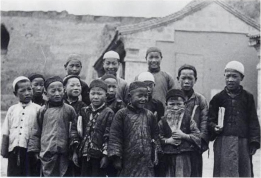 Muslim schoolboys with books and bone slates in the Republic of China.